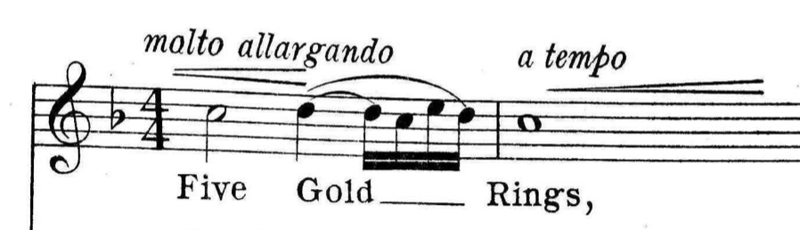 Flourish on the words "Five Gold Rings" in the final verse of Austin's 1909 arrangement of "The Twelve Days of Christmas"